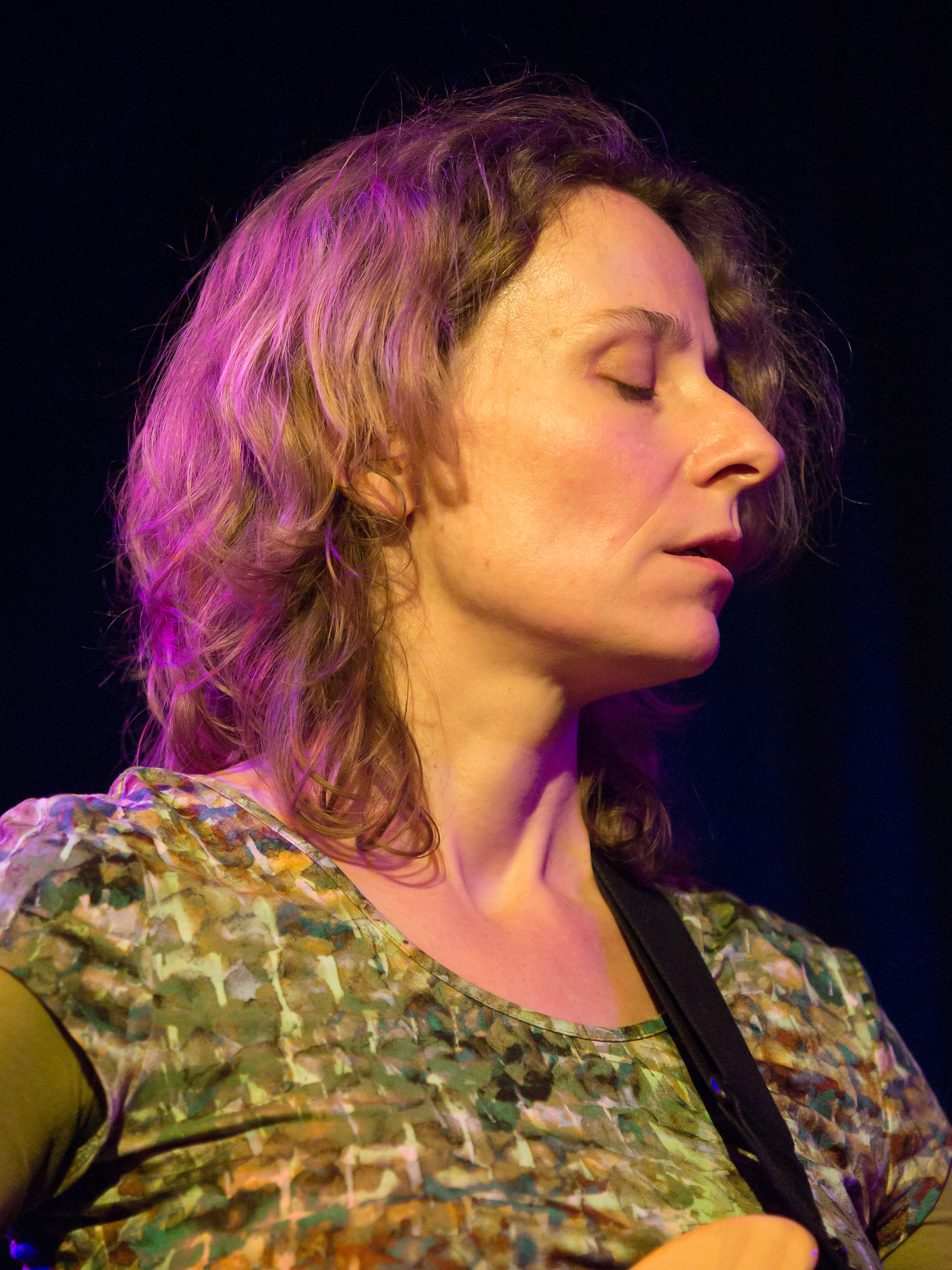 Barbara Jungfer, Jazz guitarist; Picture taken in Jazz Club Unterfahrt, Munich/Bavaria